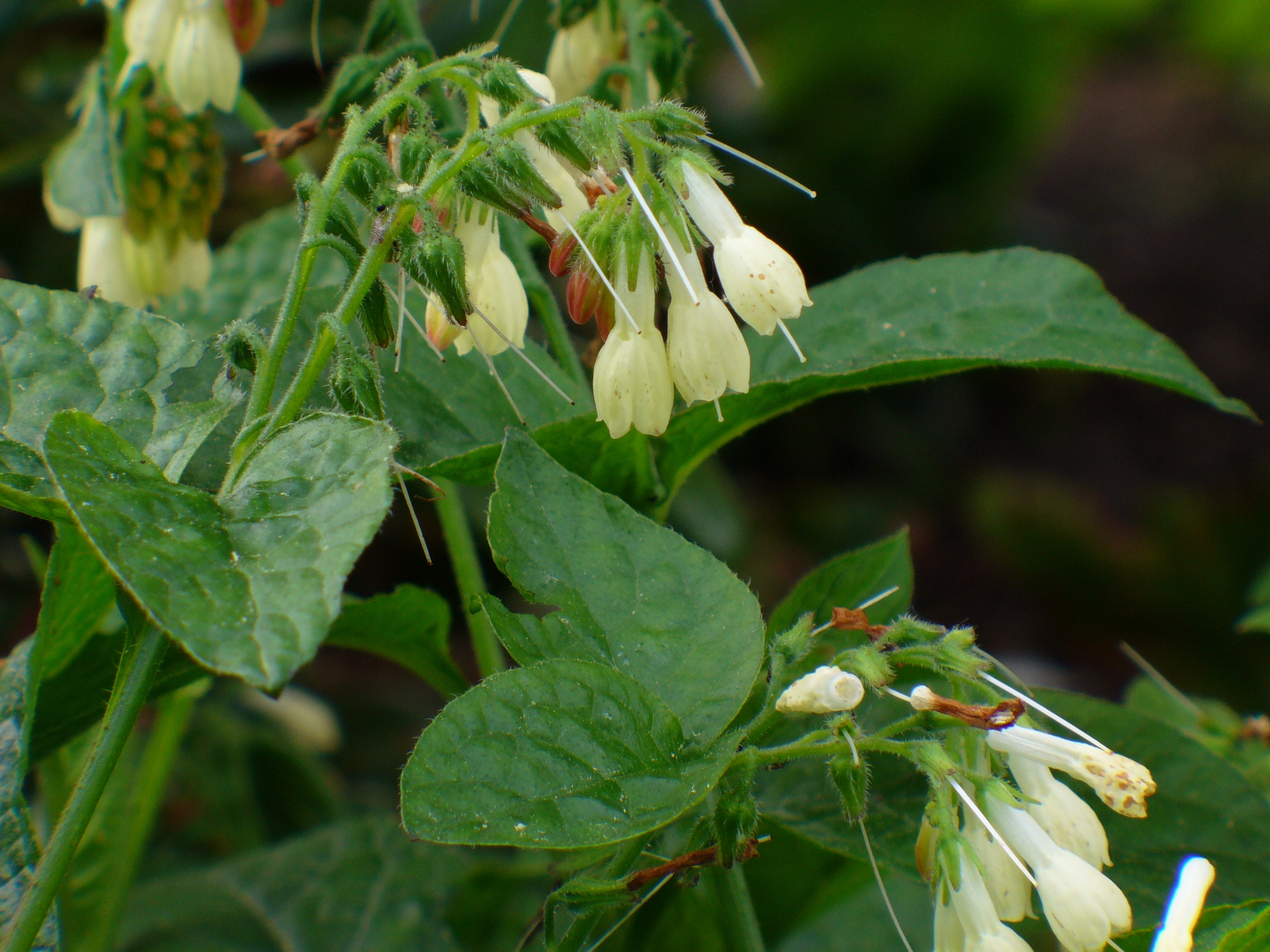 please help to categorize- respect the stress